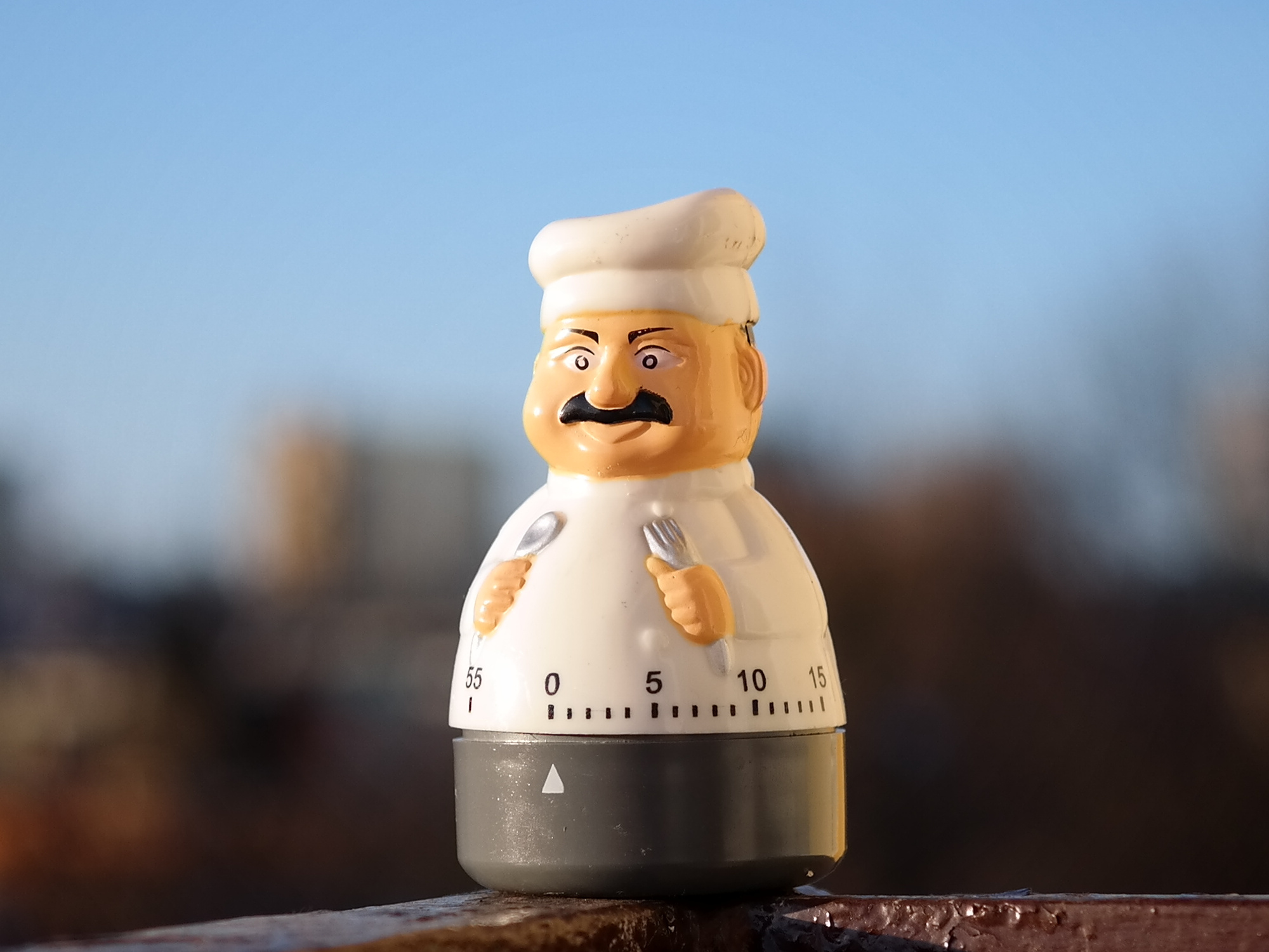 Timer - cooker.